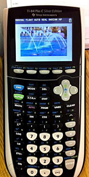 A picture of the Ti-84+ C Edition SE